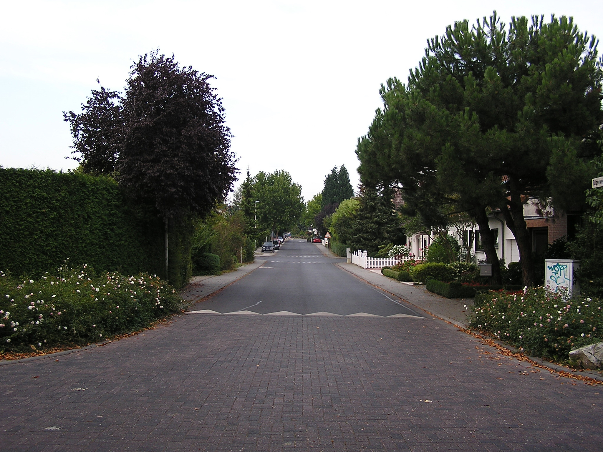 The Schaeferborn (old German, Shepherd's fountain), an area actually belonging to Friedrichsdorf's district Seulberg. Because of the plants in the street names ist is also called “Blumenghetto” (Flower ghetto).